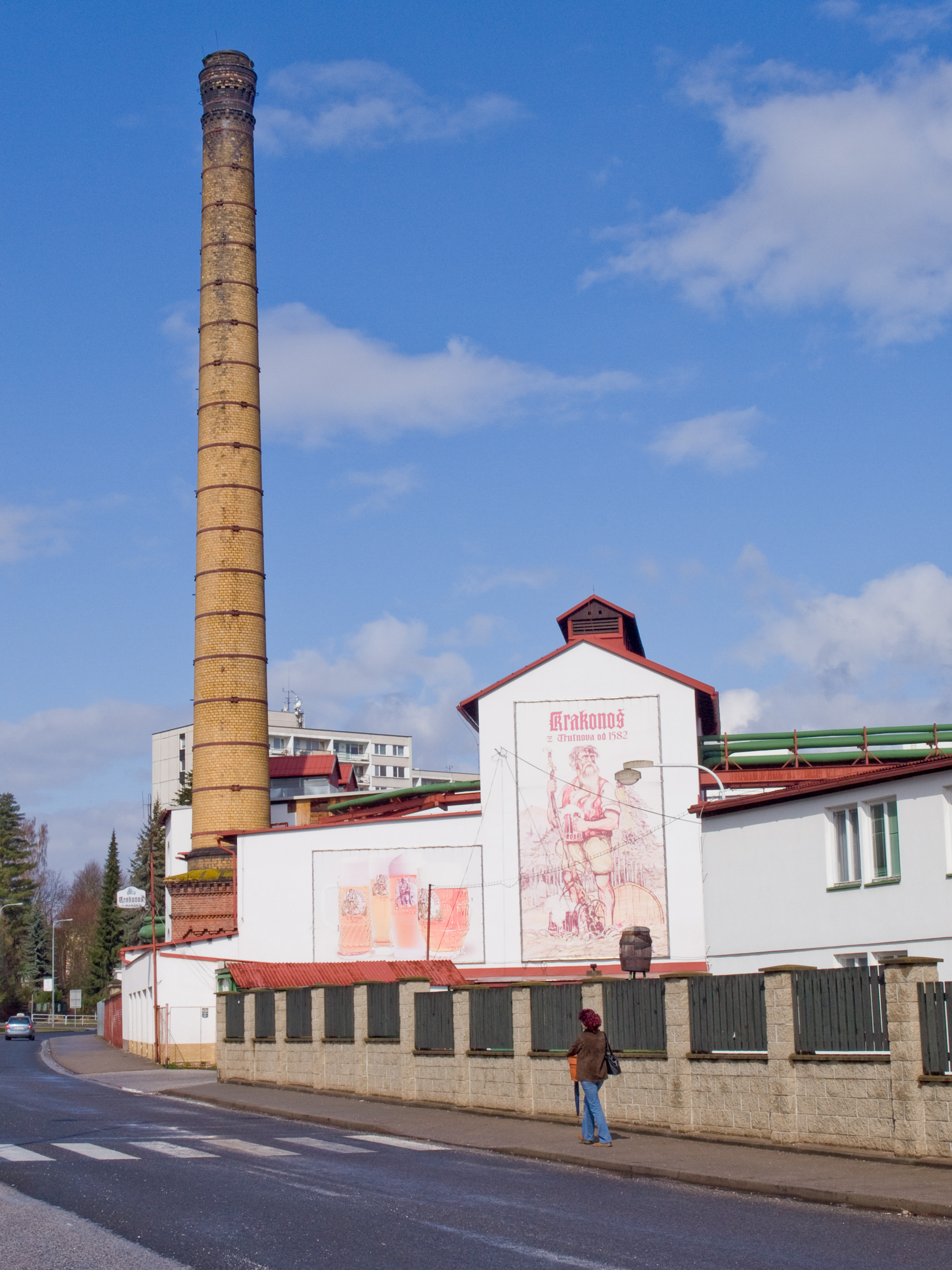 Krakonoš Brewery, Trutnov, Hradec Králové Region, Czech Republic